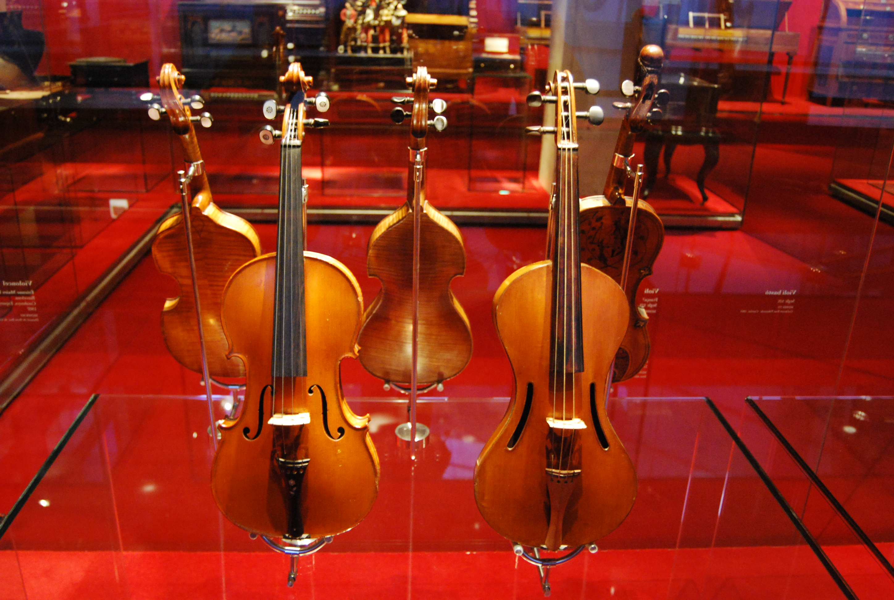 Violins at the Museu de la Música de Barcelona